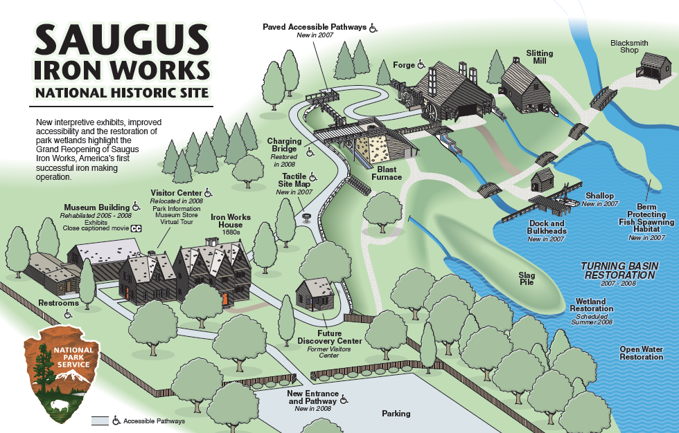 Saugus_Iron_Works_National_Historic_Site_Visitors_Map